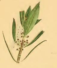 Stainton’s Natural History of the Tineina (1855–1873): Zelleria hepariella a branch of Phyllyrea with larval web